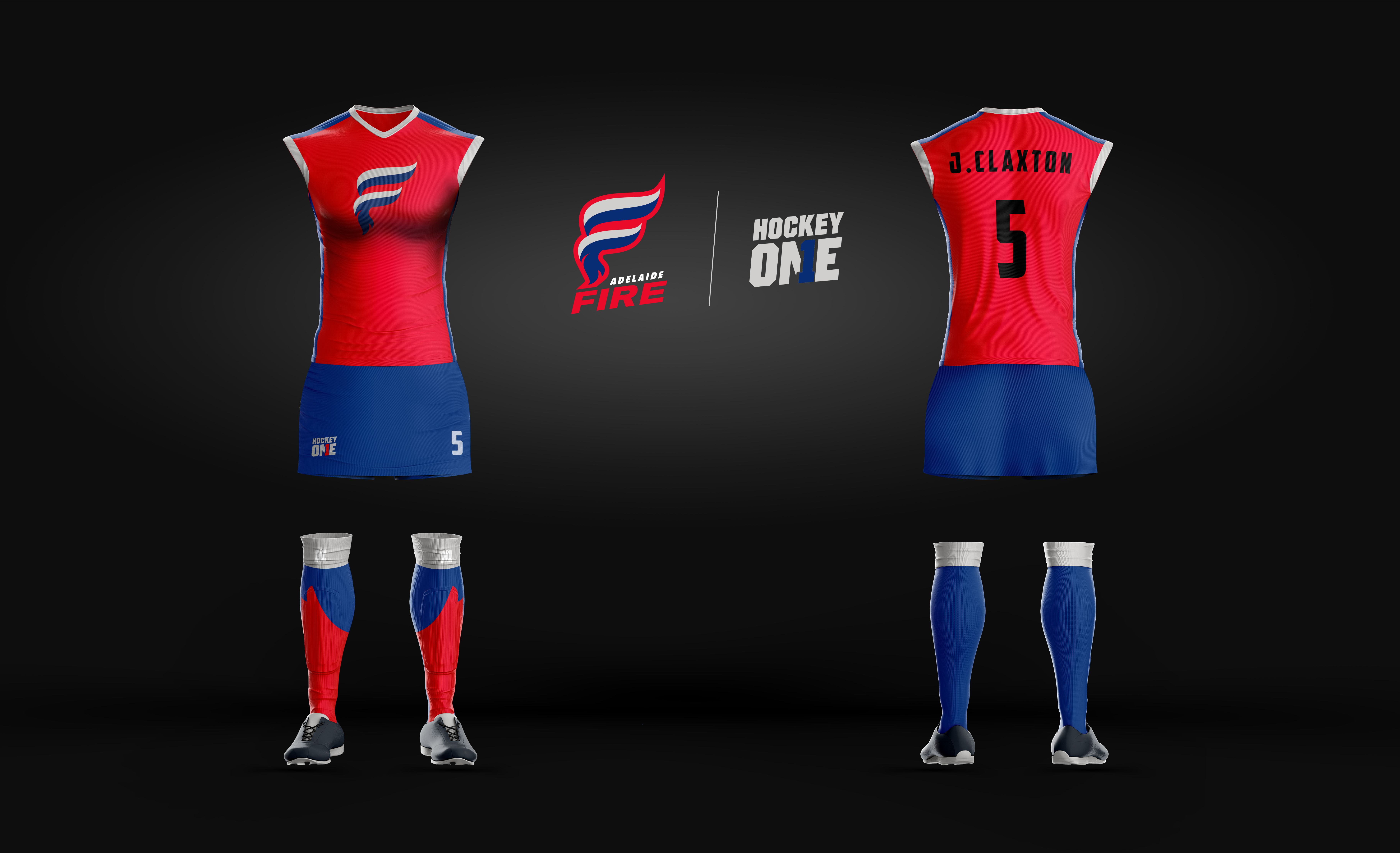 Adelaide Fire Women's Uniform